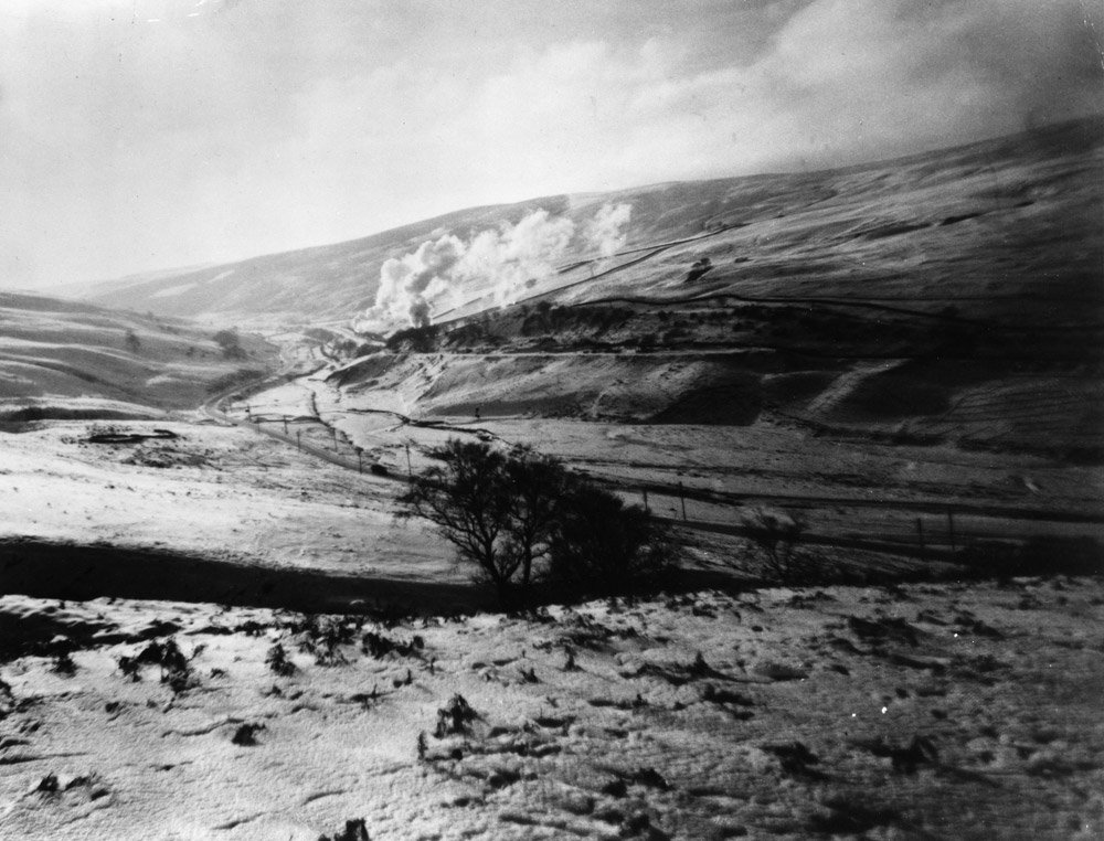 Image of train in landscape near Scottish border from the documentary film Night Mail by the GPO Film Unit